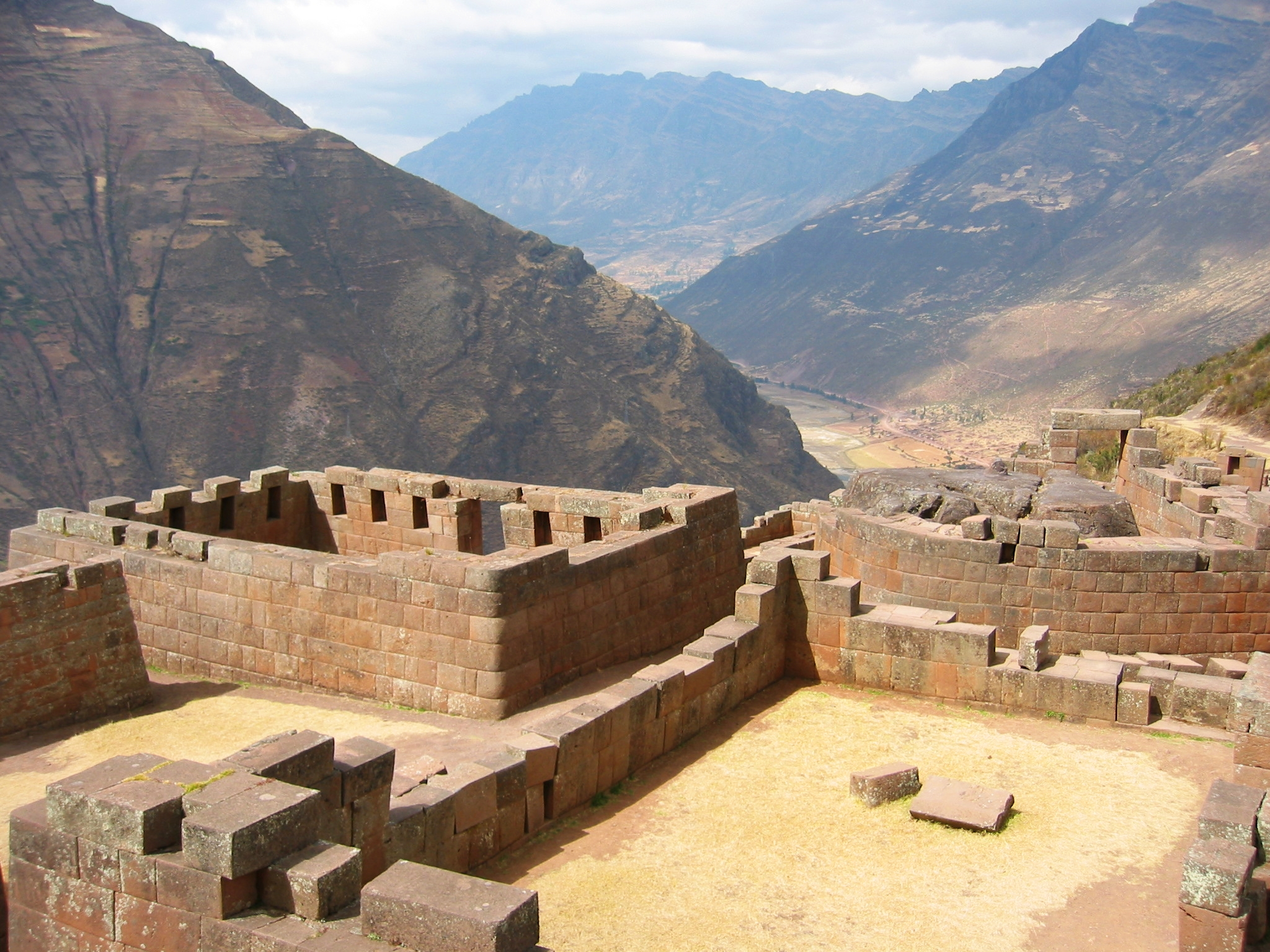 View of the Sacred Valley, Peru, from the Sun Temple (foreground) at Písac.